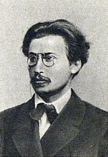 Yaroslavsky, Yemelyan Mikhailovich